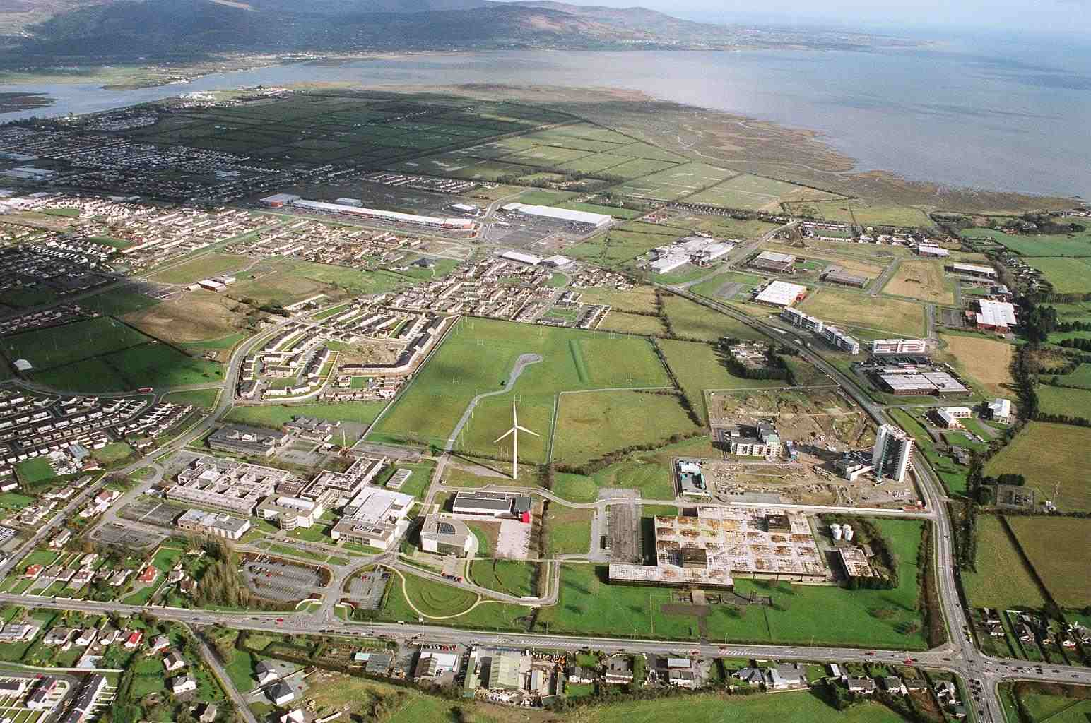 Photo we took from small light aircraft for use by the estates office on DkIT campus. The photo is freely available to the public at